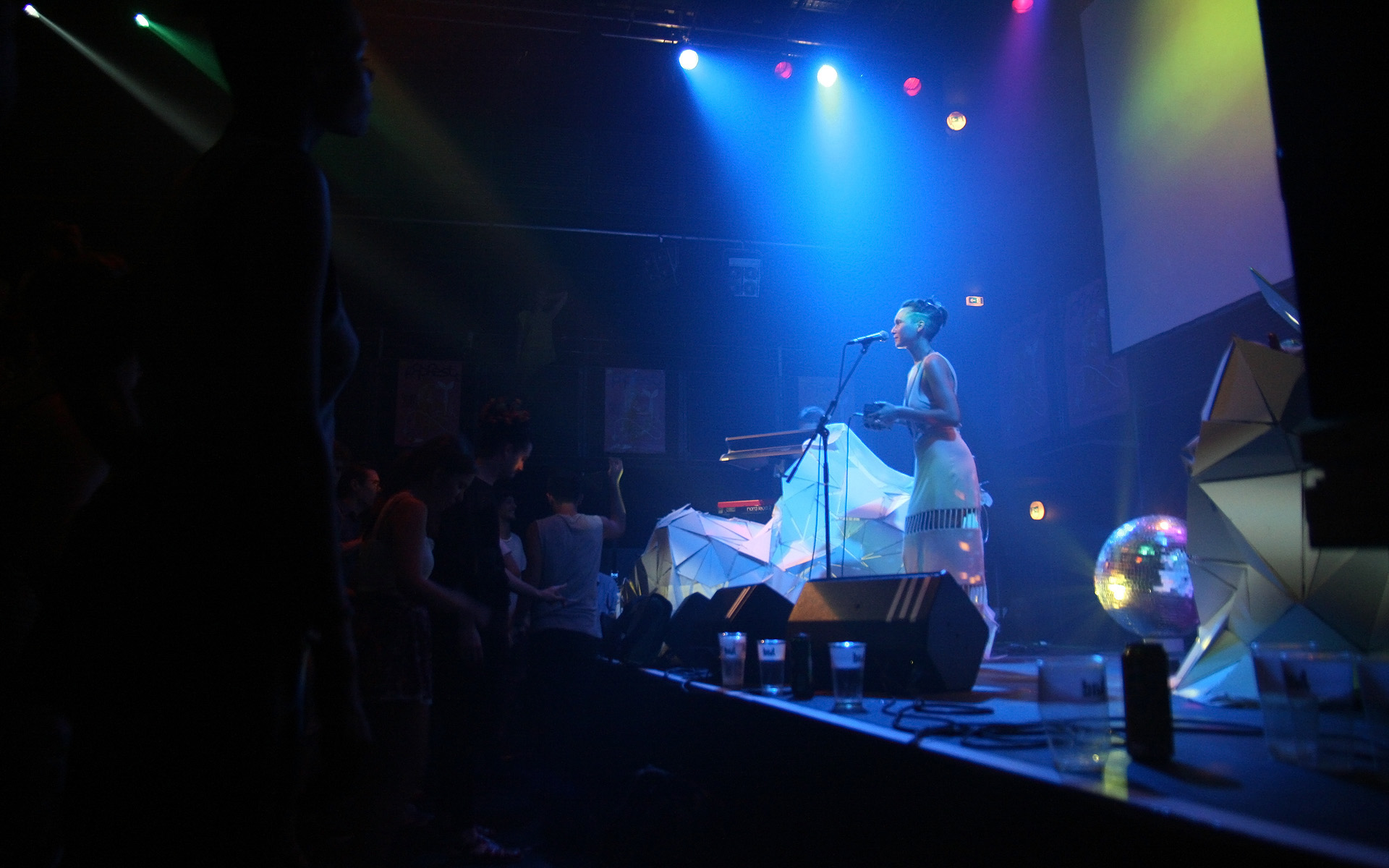 Concert of Austrian group Konea Ra at brut im Künstlerhaus in Vienna during Popfest 2012.